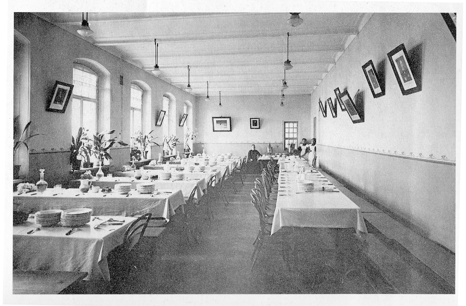 Dinner room in the Alferov's gymnasium in Moscow